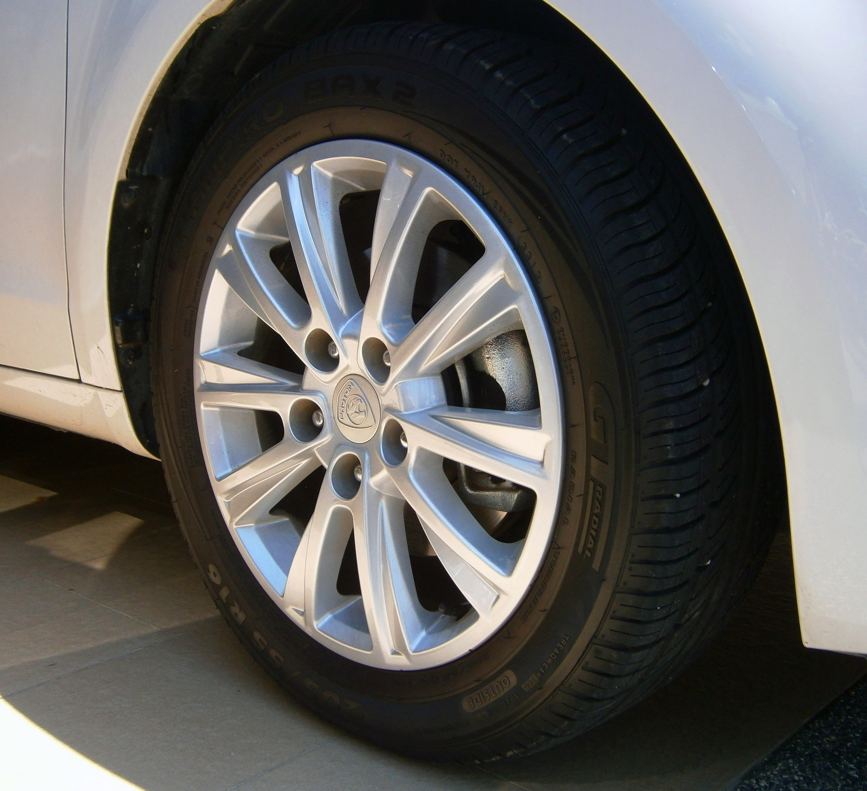 2014 Proton Prevé Executive - 16-inch Alloy Rims. Designed & Assembled in Malaysia